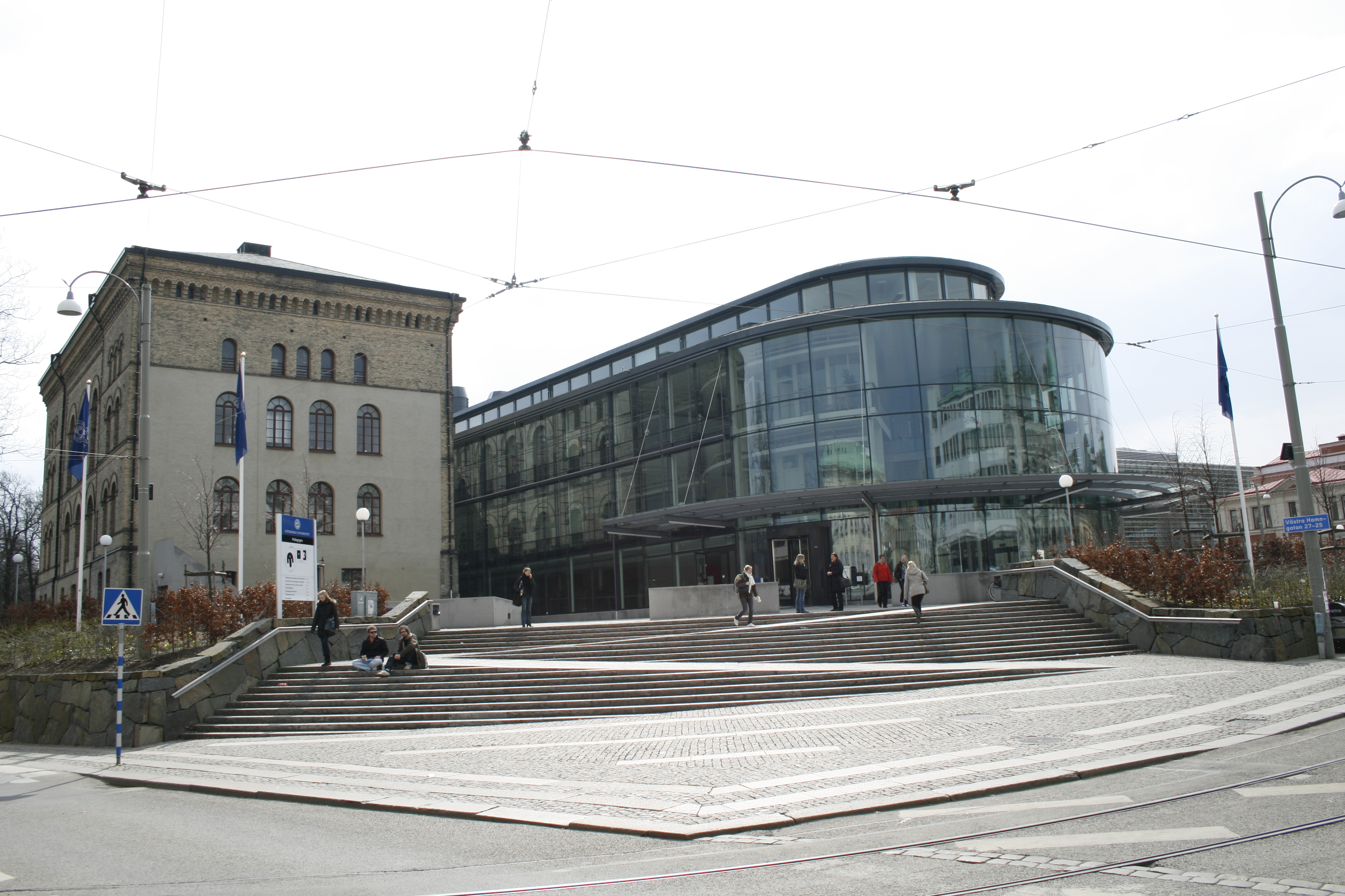 Faculty of Education